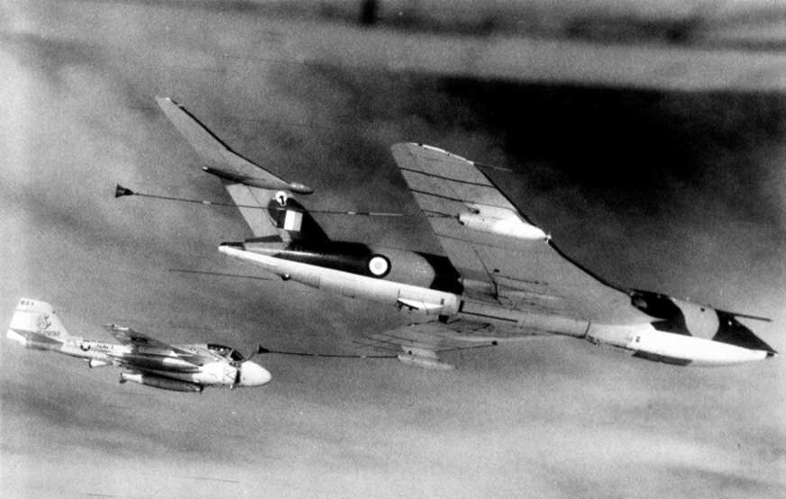 A Royal Air Force Handley Page Victor K.1 tanker from No. 55 Squadron RAF refuels a U.S. Navy Grumman KA-6D Intruder (BuNo 152892) from Attack Squadron VA-65 Tigers during the NATO exercise "Royal Knight" over the North Atlantic. VA-65 was assigned to Carrier Air Wing 7 (CVW-7) aboard the aircraft carrier USS Independence (CVA-62) for a deployment to the North Atlantic and the Mediterranean Sea from 16 September 1971 to 16 March 1972.